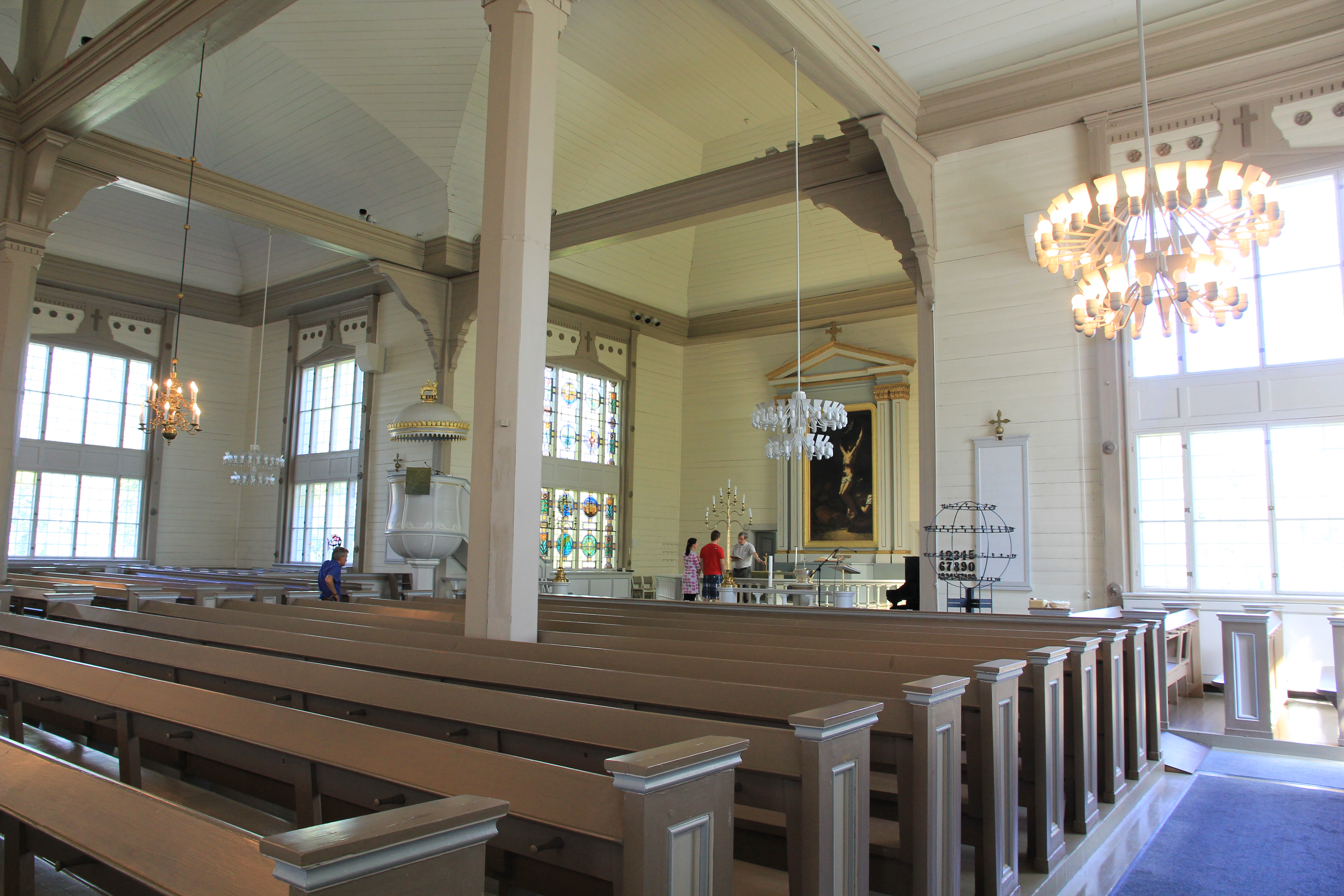 Interior of Mikkeli parish church. The altar painting is by Amélie Lundahl (1850–1914), and it is a copy of Pierre-Paul Prud'hon (1752-1823) Crucifixion. The stained glass window is by Rafael Blomstedt (1885-1950).